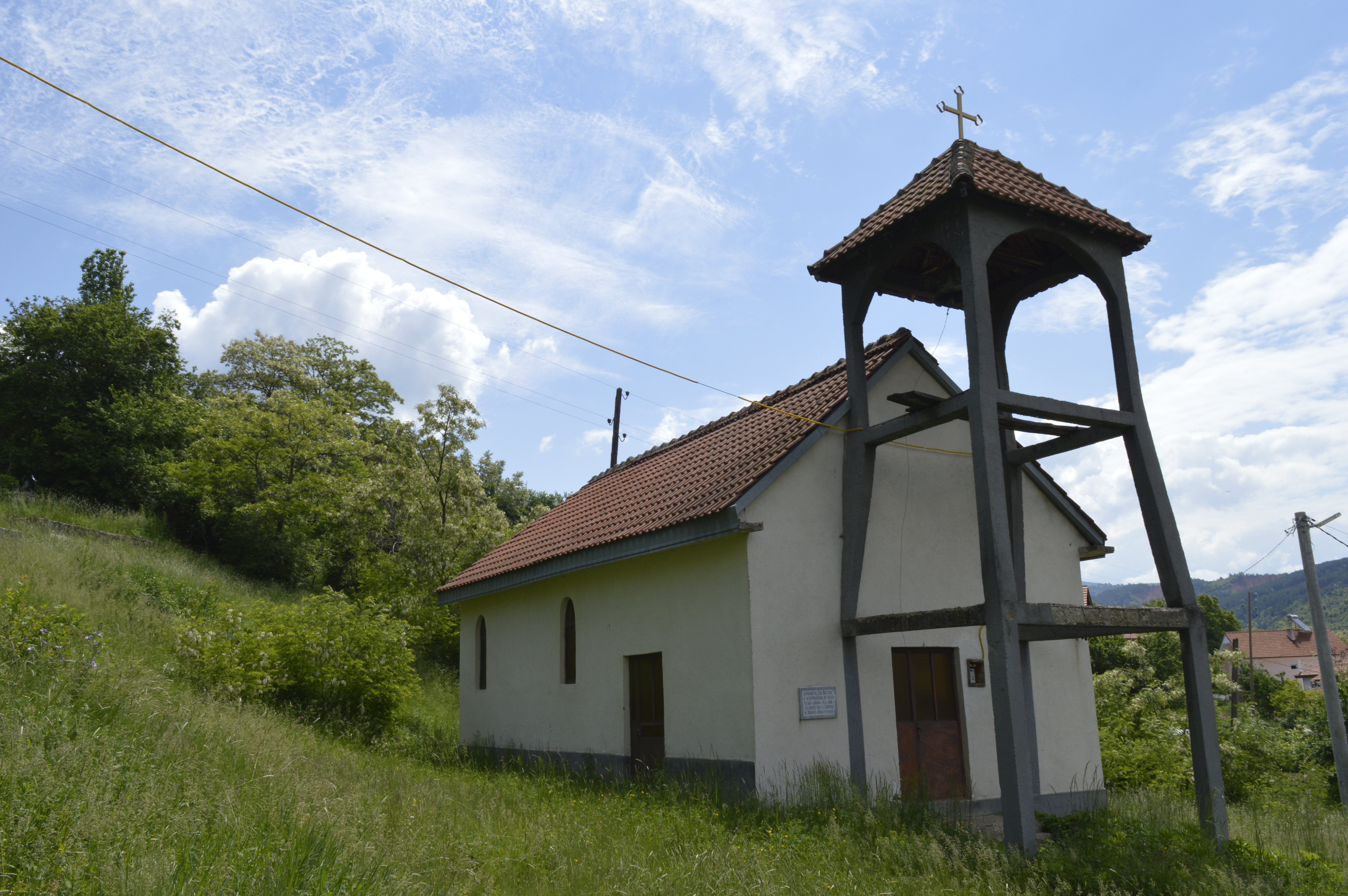 View of the St. Petka Church in the village Crnik